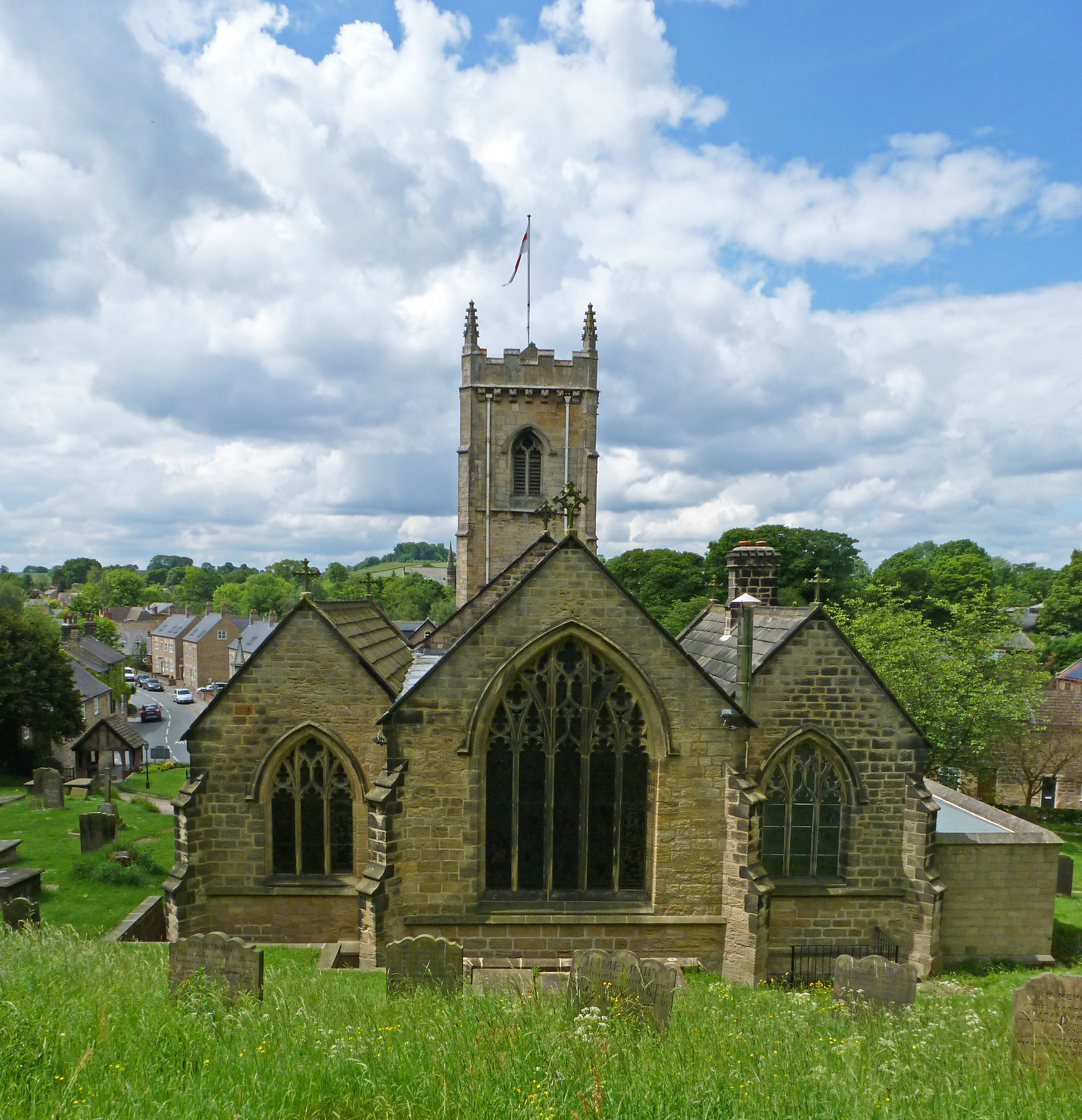 St Peter's C of E Church, Thorner, West Yorkshire. Taken by Flickr user: Tim Green aka atouch on Sunday the 10th of June 2012.